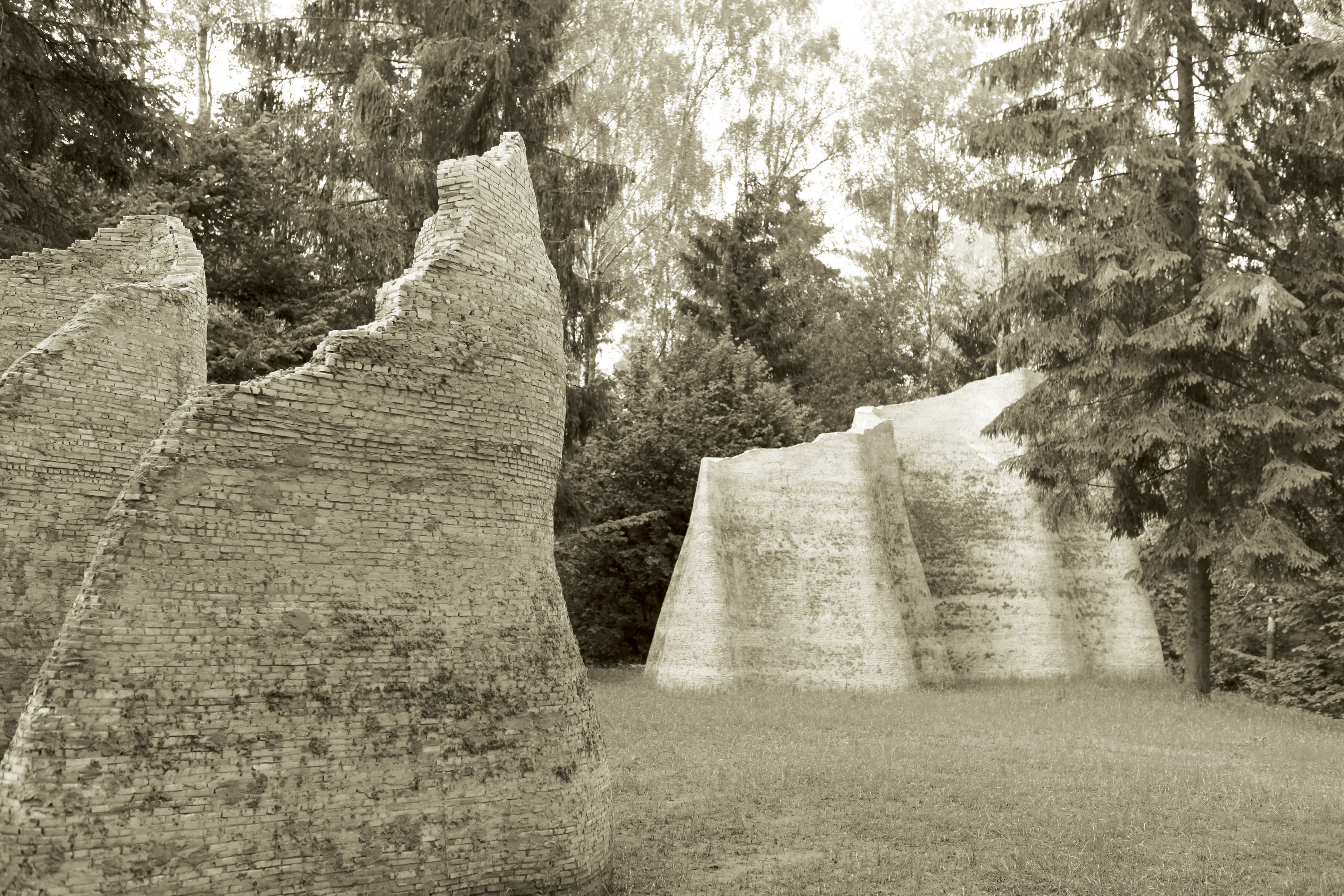 The landscape work Kultūra (Culture) created by sculptor Gintaras Karosas in Europos Parkas, Open-Air museum of the centre of Europe